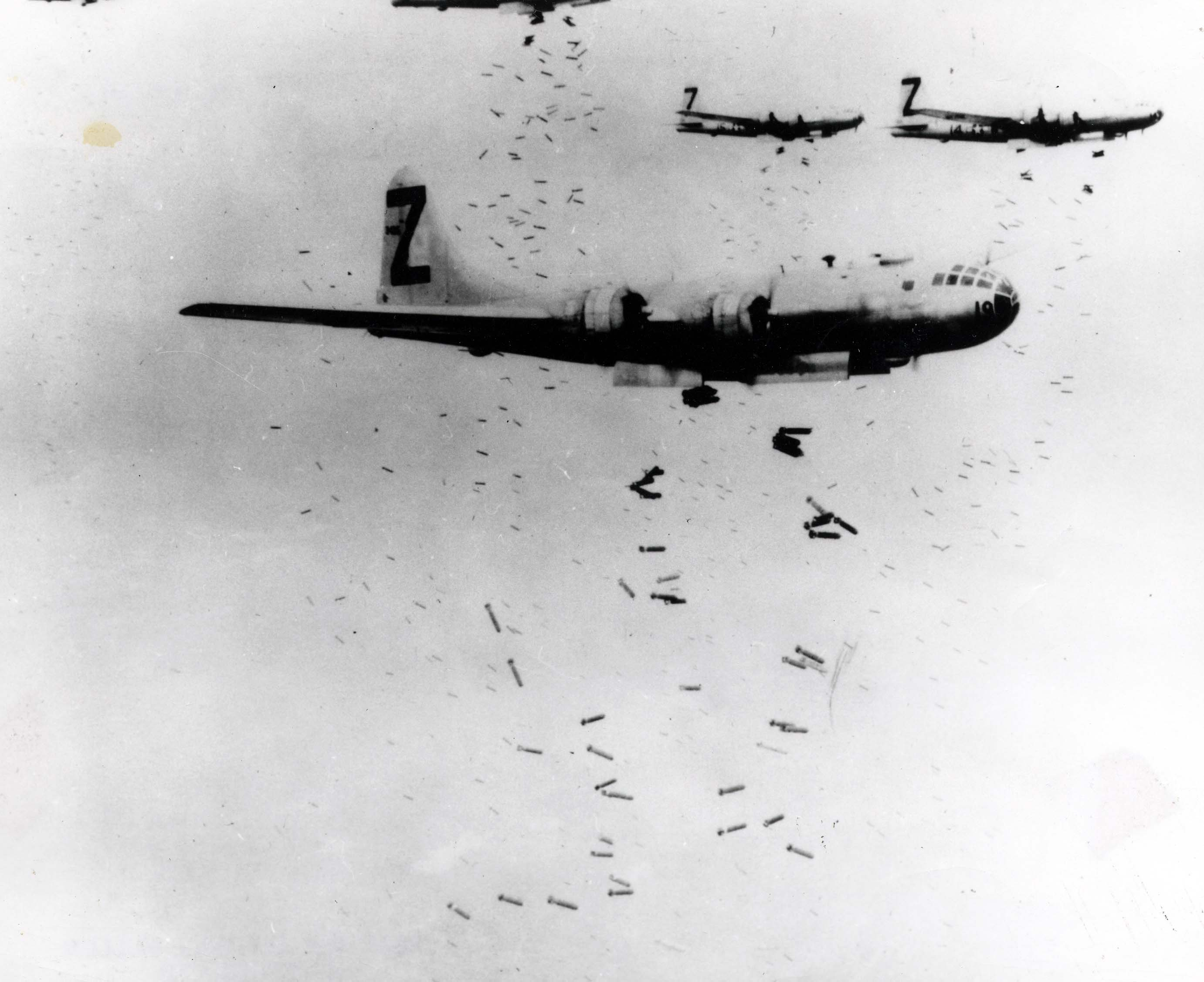 B-29s from 500th BG, 73rd BW of Twentieth Air Force dropping incendiary bombs over Japan, 1945